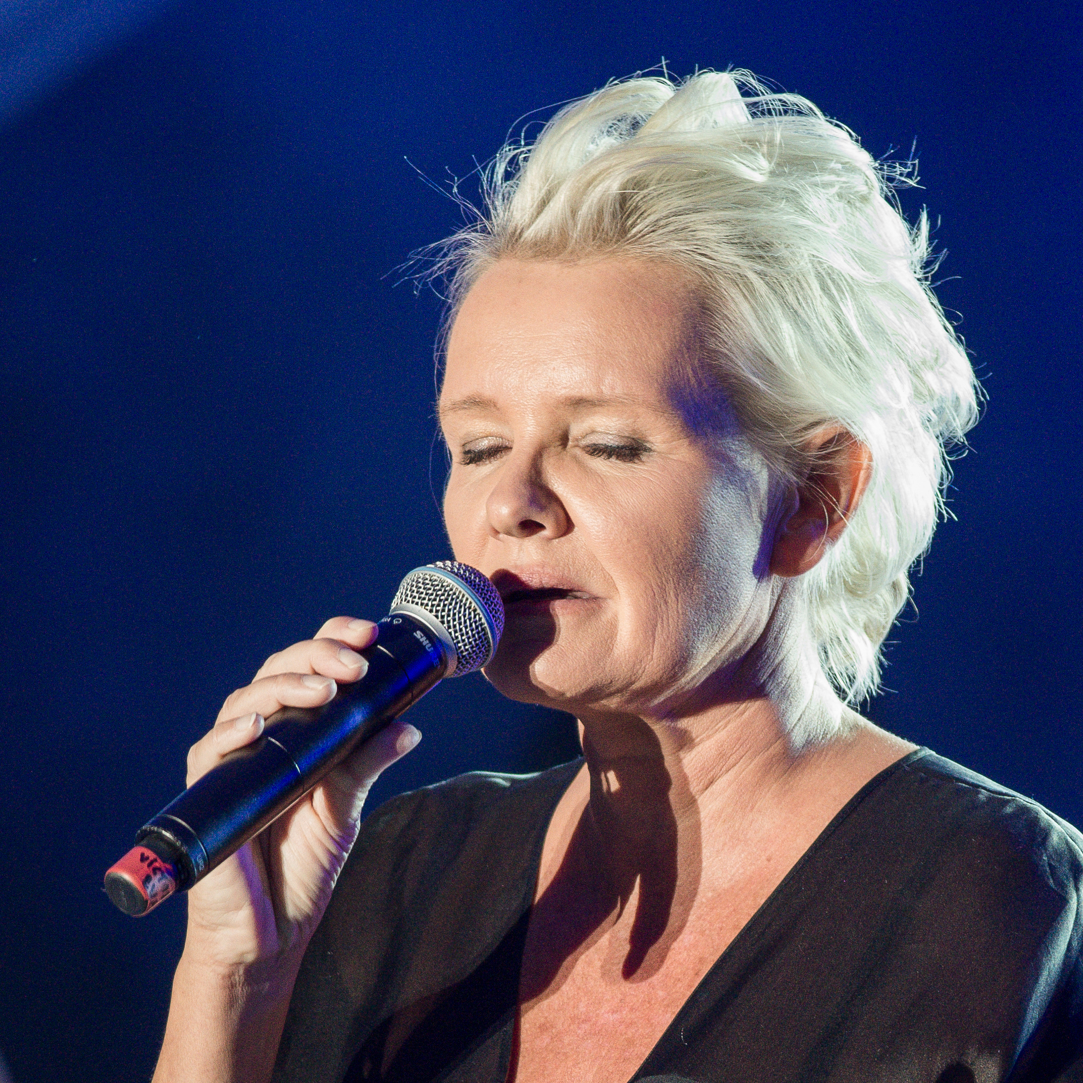 Eva Dahlgren July 2014